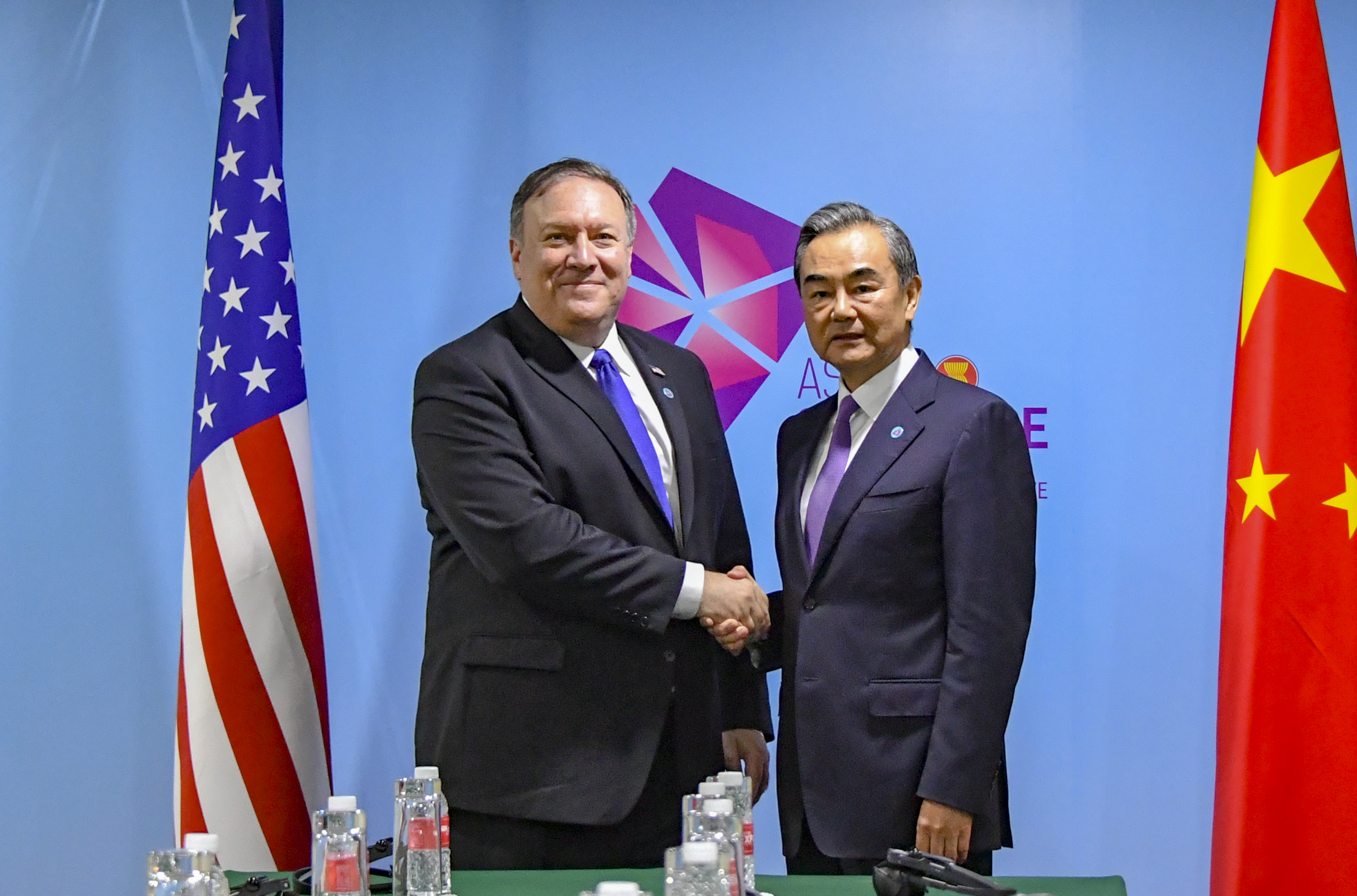 Secretary Michael R. Pompeo shakes hands with Chinese Foreign Minister Wang Yi at the ASEAN-US Ministerial Meeting, 3 August 2018, Singapore. [State Department Photo / Public Domain]